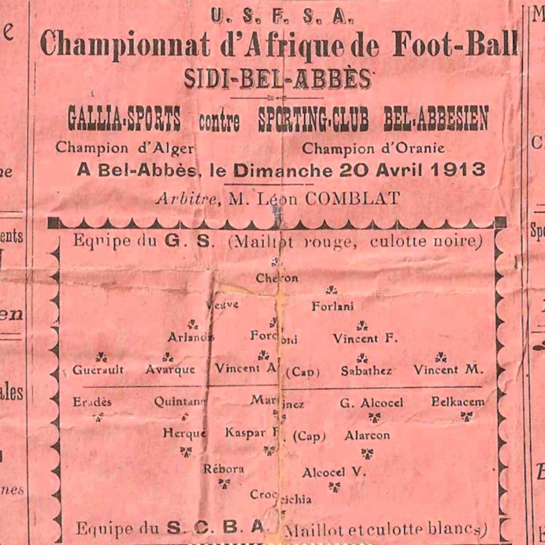 Scoresheet of USFSA North African Champion's Cup, between GS Alger and SC Bel-Abbès, April 20th 1913.